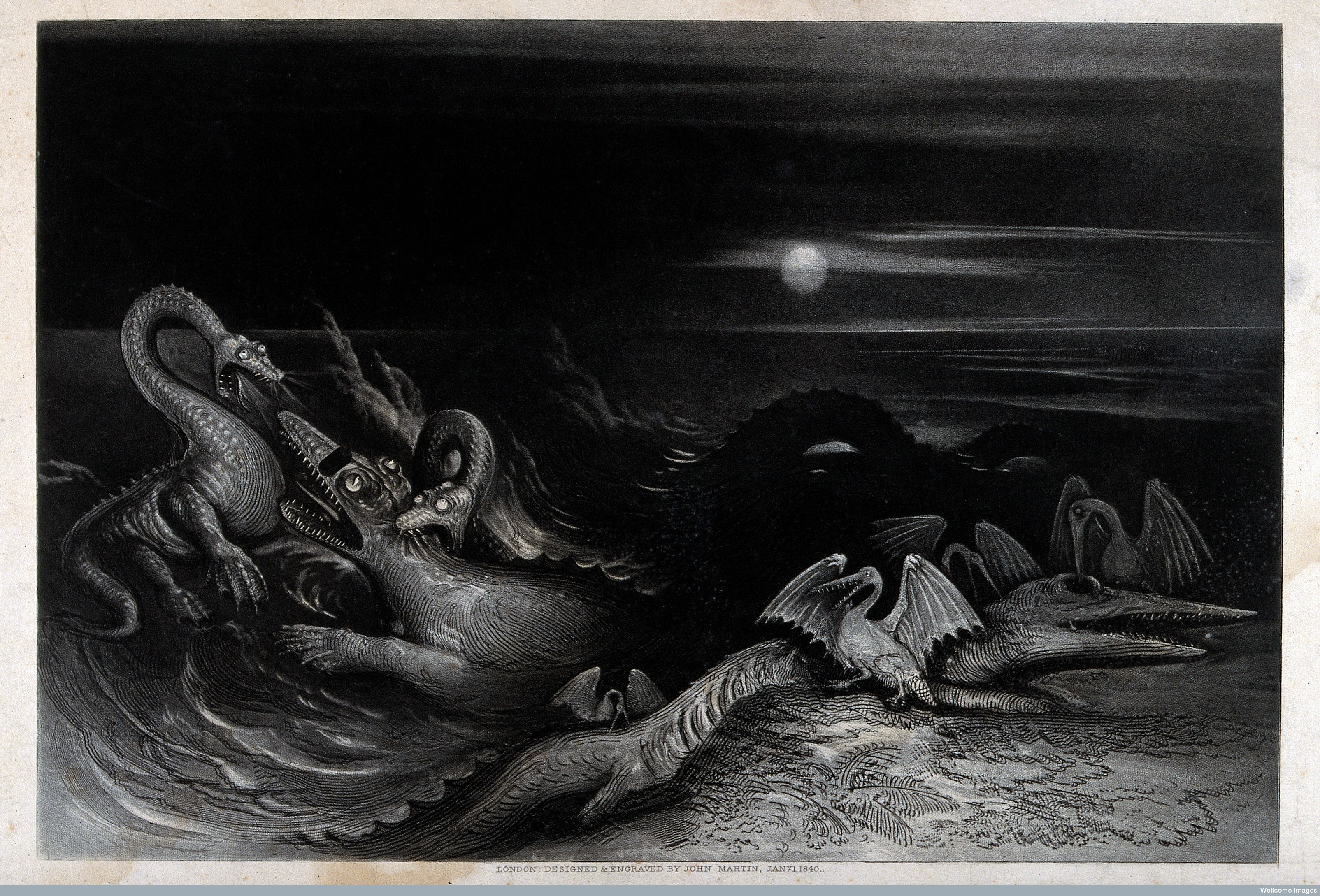 A nocturnal scene with saurians and sea-creatures fighting each other in the water. Mezzotint by J. Martin. Iconographic Collections Keywords: John Martin